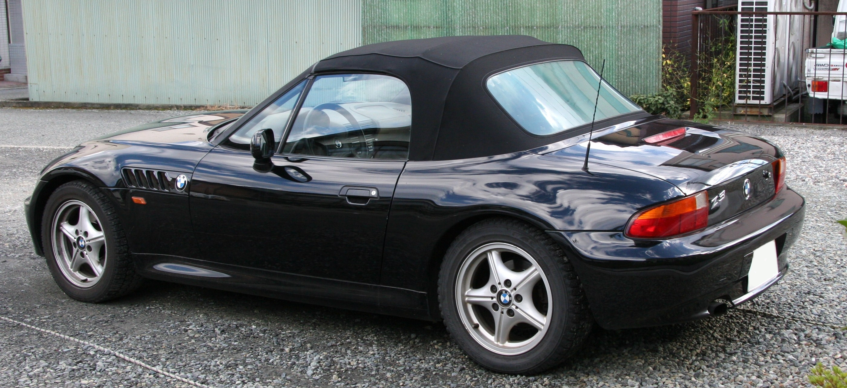 BMW Z3